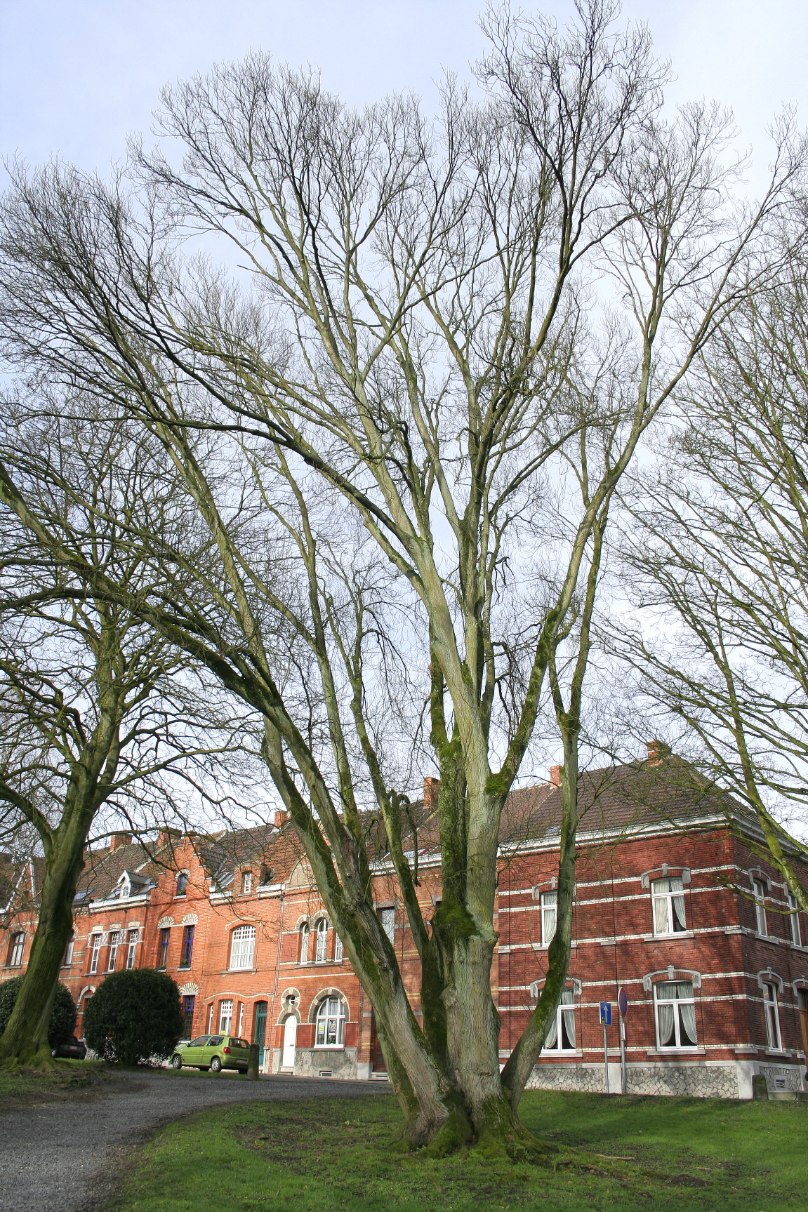 Wych Elm or Scots Elm.